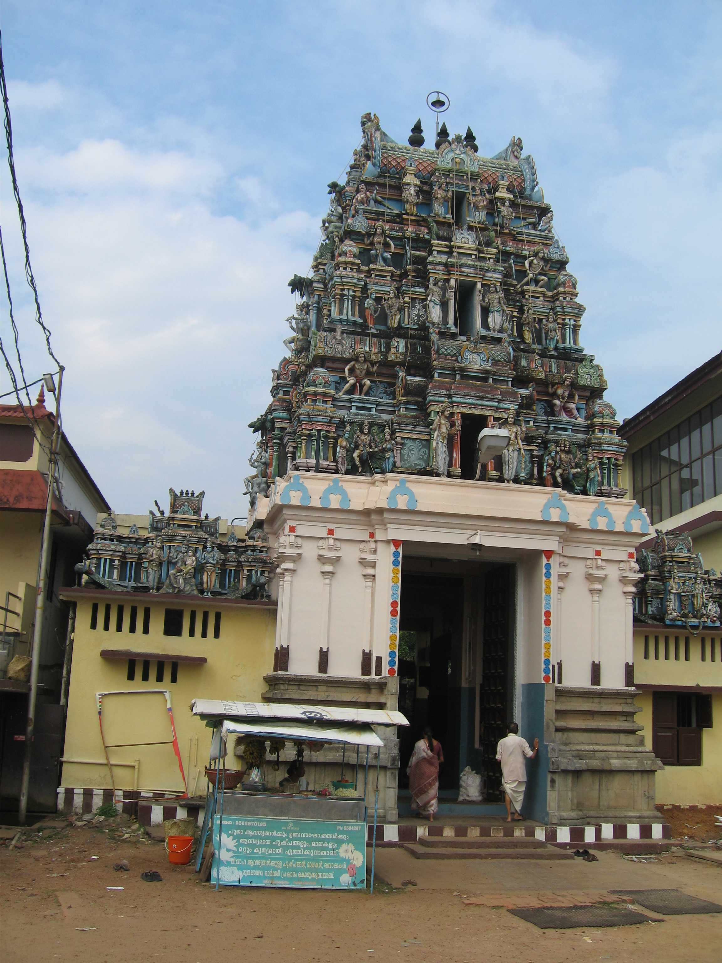 The Muruguan Temple is a part of the Ernakulam Temple complex, situated to the north of the main Shiva Temple